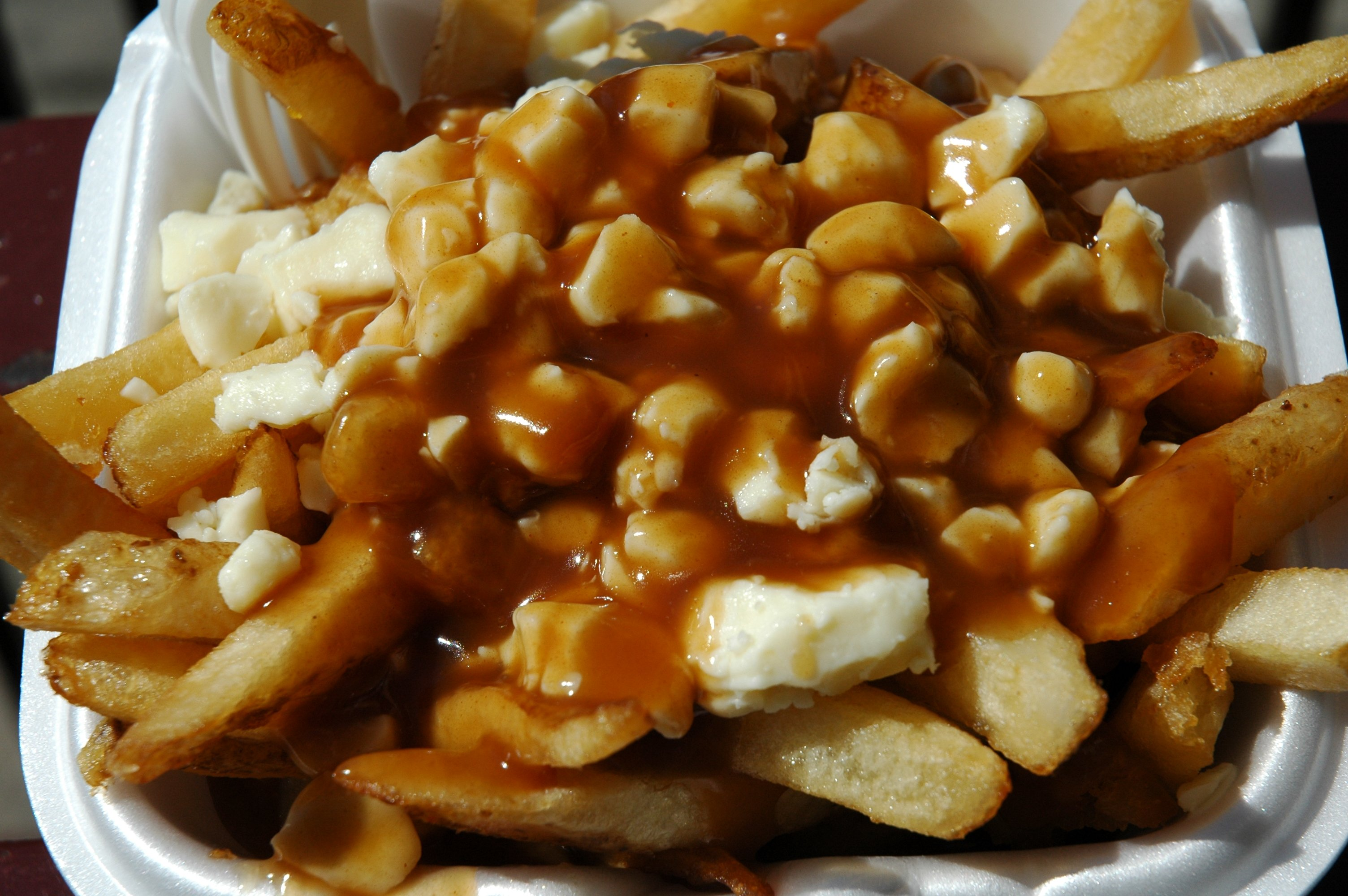 Closeup of poutine (ewwww), Ottawa, Canada.